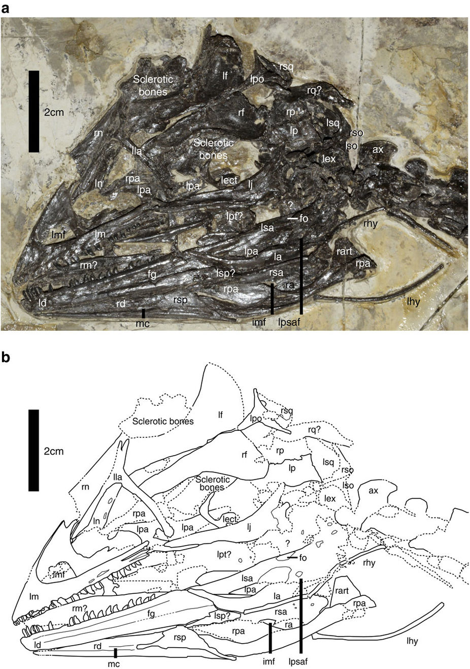 Figure 2: Cranium of Jianianhualong tengi holotype DLXH 1218. (a) Photograph and (b) line drawing of the skull and mandible. Scale bar, 2 cm. ax, axis; fg, groove with foramina; fo, fossa; imf, internal mandibular fenestra; la, left angular; ld, left dentary; lect, left ectopterygoid; lex, left exoccipital; lf; left frontal; lhy, left hyoid bone; lj, left jugal; lla, left lacrimal; lm, left maxilla; lmf, left maxillary fenestra; ln, left nasal; lp, left parietal; lpt?, left pterygoid?; lpa, left prearticular; lpo, left postorbital; lpsaf, left posterior surangular foramen; lsa, left surangular; lsp?, left splenial?; lso, left supraoccipital; lsq, left squamosal; mc, Meckelian canal; ra, right angular; rart, right articular; rd, right dentary; rf, right frontal; rhy, right hyoid bone; rm?, right maxilla?; rn; right nasal; rp, right parietal; rpa, right prearticular; rq?, right quadrate?; rsa; right surangular; rso, right supraoccipital; rsp; right splenial; rsq, right squamosal.